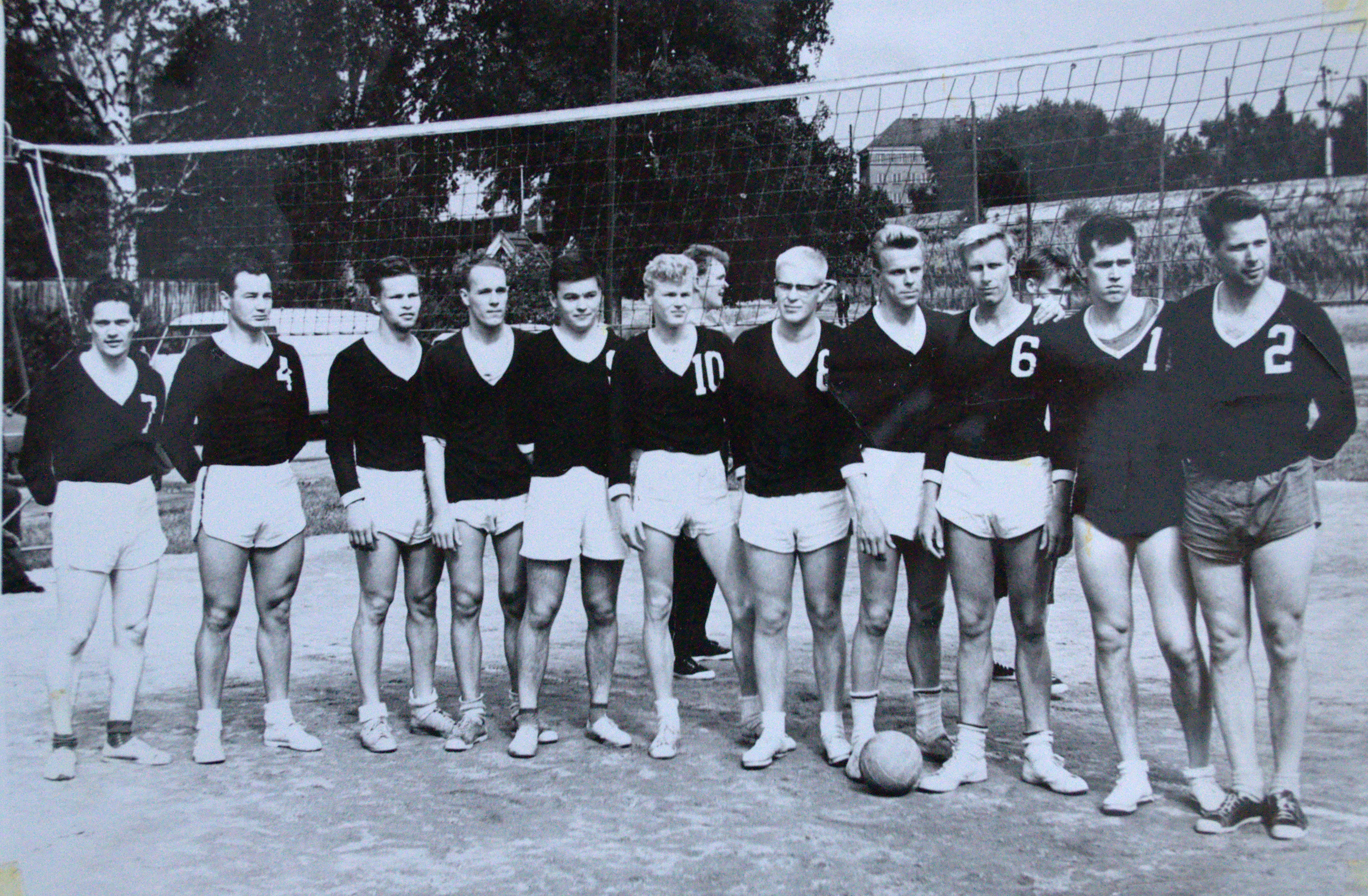 Lautta-Pojat volleyball team that was promoted to Finnish national league for season 1963-1964